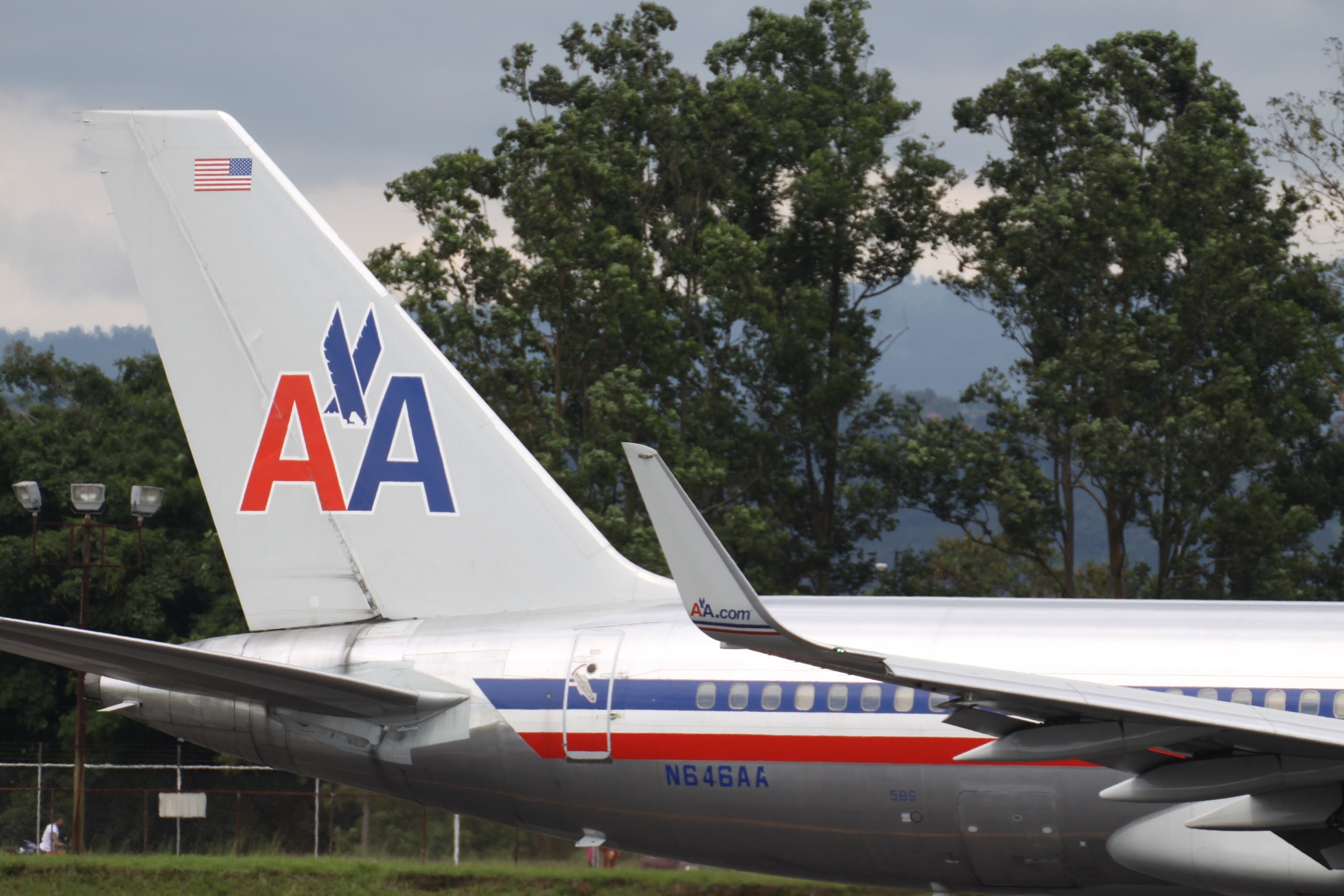 At Juan Santamaría International